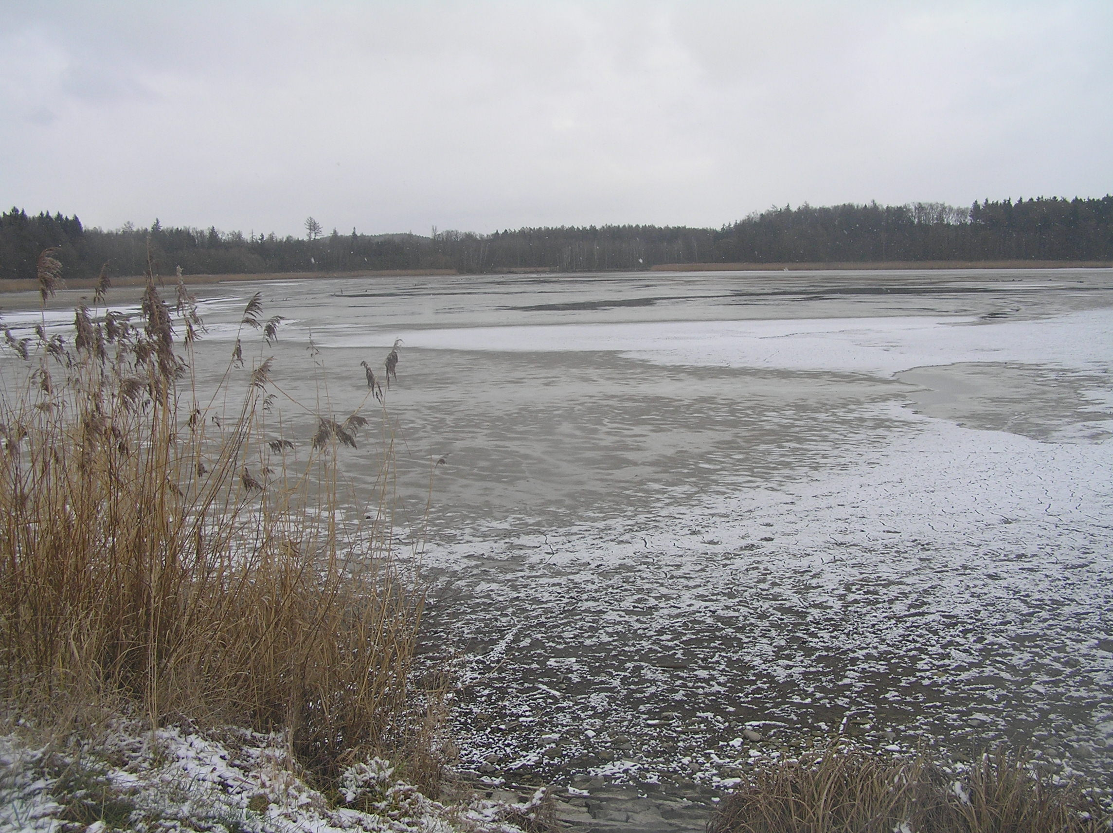 Chobot is the large pond near the town Vysoké Mýto, Pardubice Region, Czech Republic